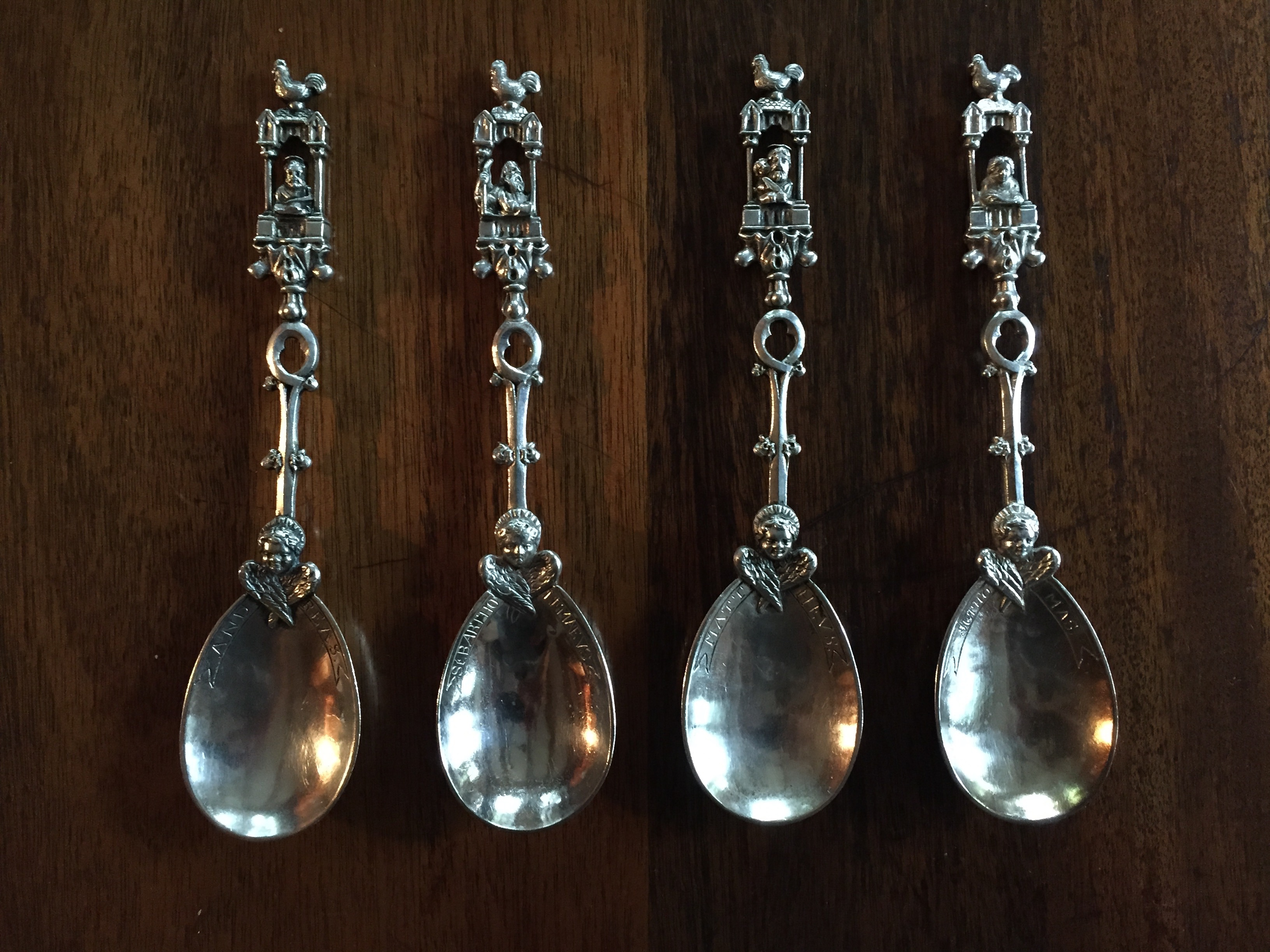 Apostles Spoons - L to R - Andrew, Bartholomew, Mathew, Thomas